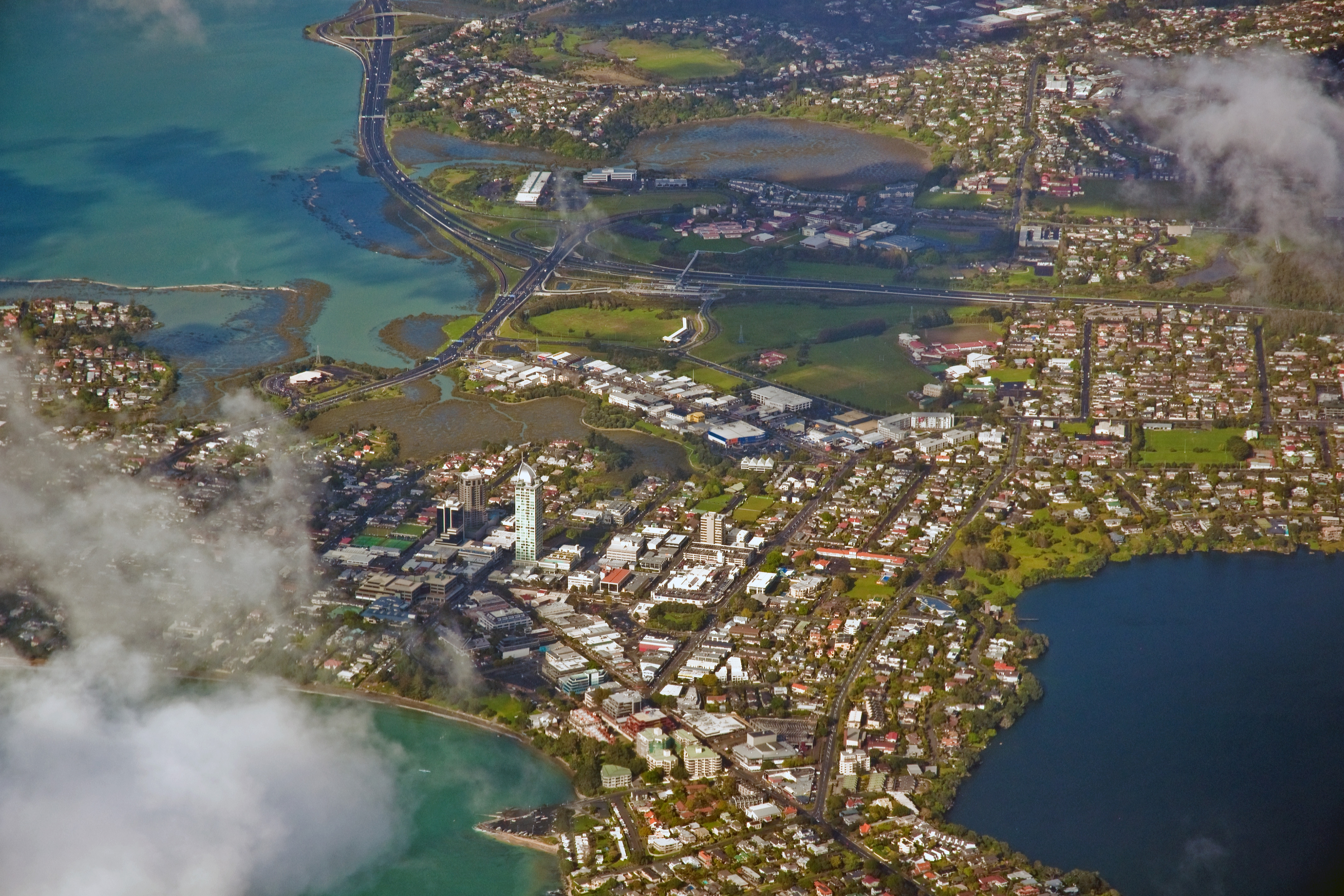 Arriving Auckland on an Air NZ 777. Looking southwest over Takapuna, Auckland, New Zealand.